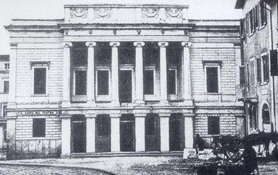 Piazza Battisti and Teatro Animos in Carrara, pre 1870.